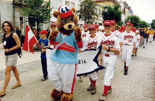 Little League Baseball